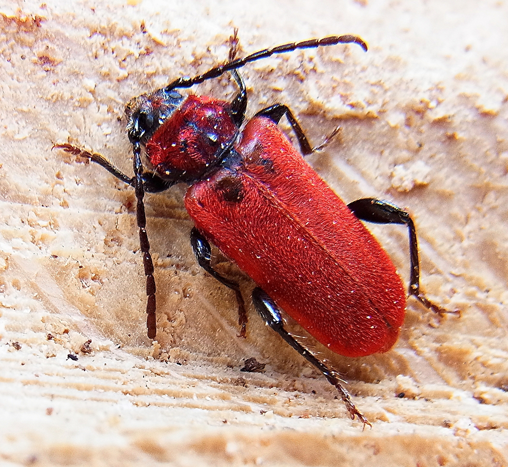 Pyrrhidium sanguineum from Hungary, Sopron at newly cut oak, at 2012-04-15